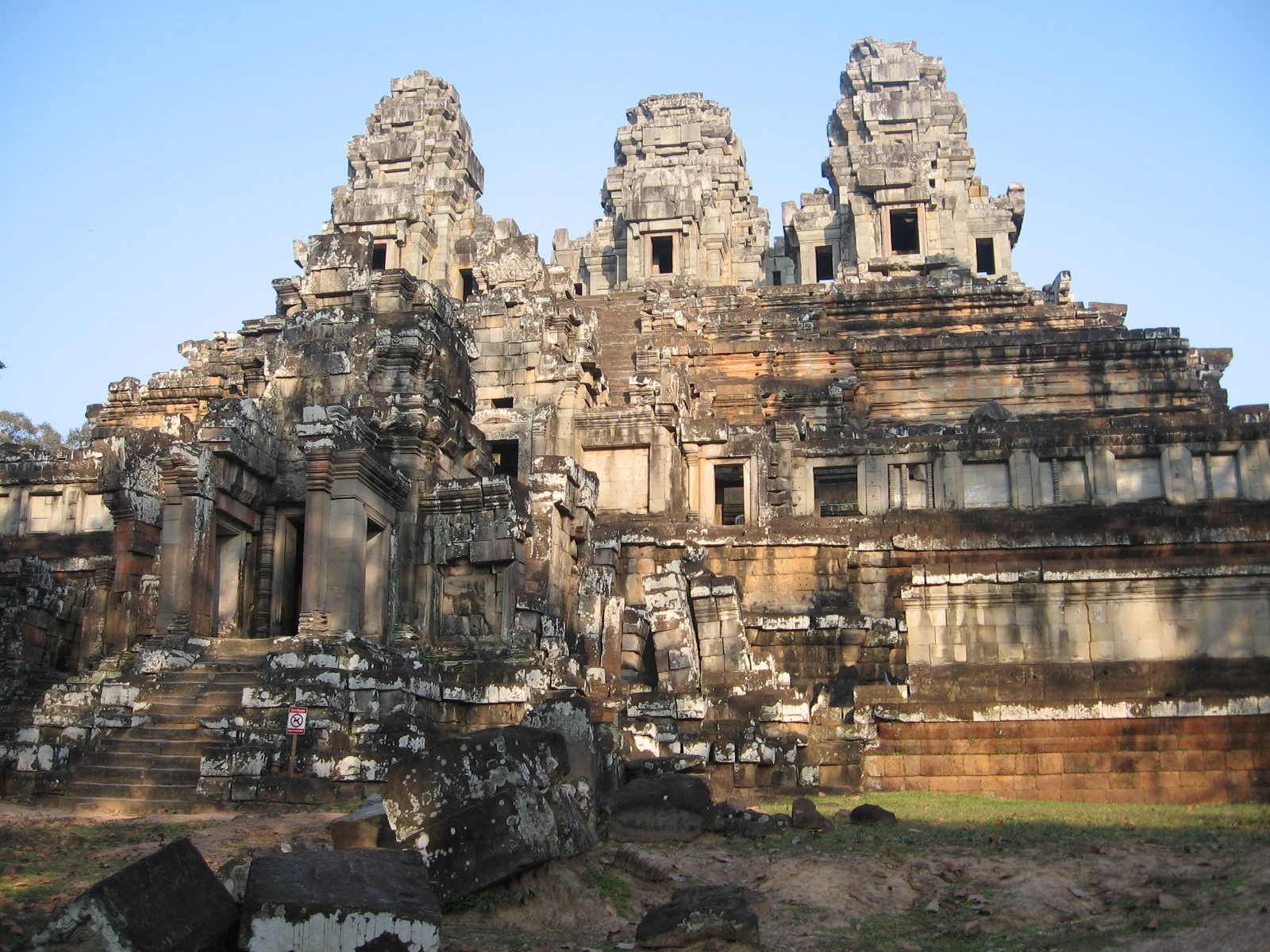 Takeo Temple- A temple without relief and incomplete construction during the Khmer Empire - This is the highest temple in the Angkor area.